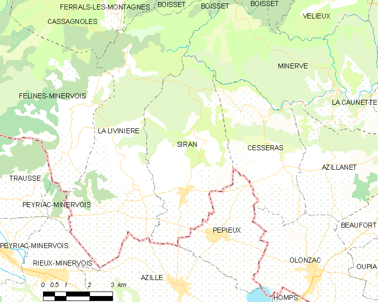 Map commune FR insee code 34302.png - Siran (Hérault)